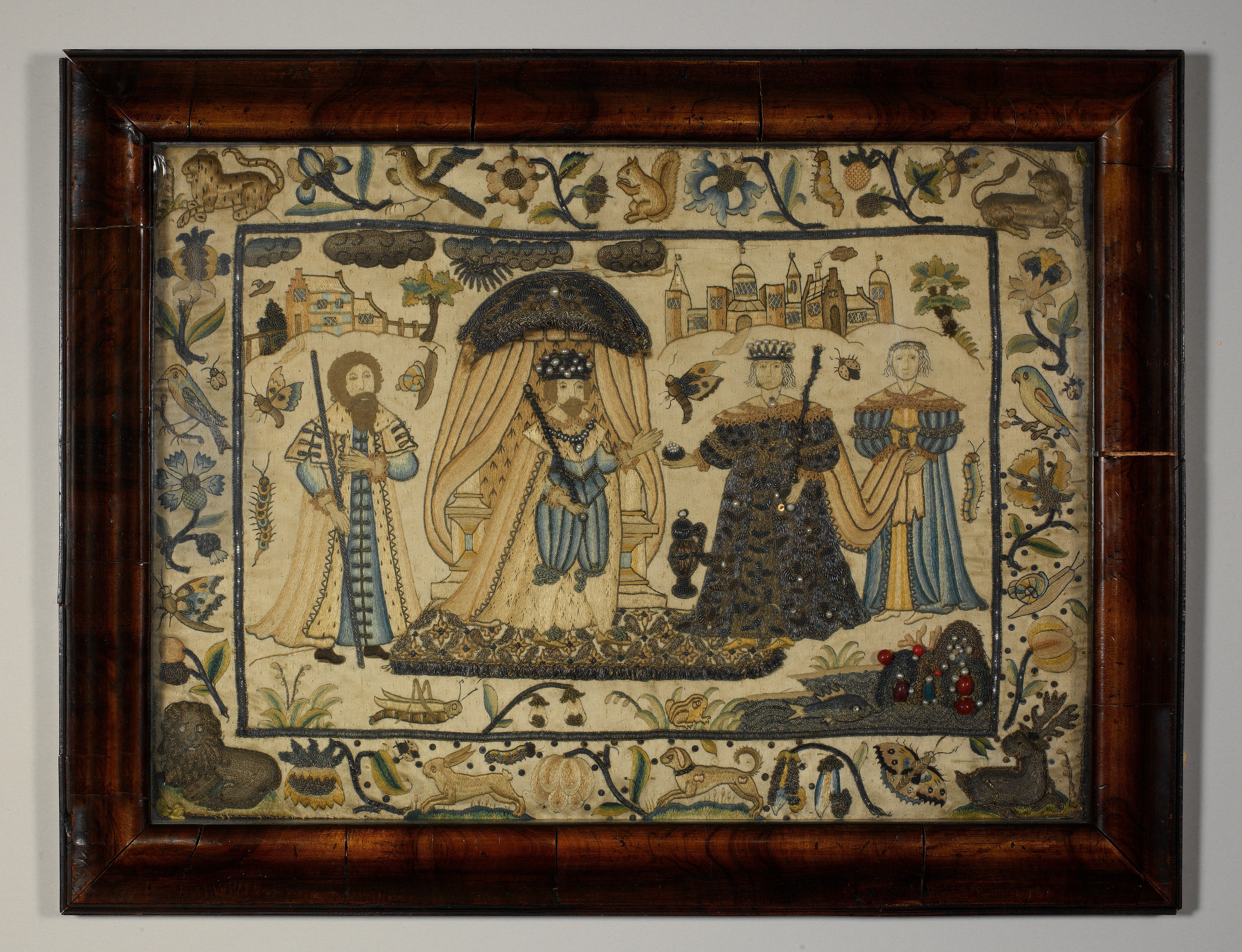 British; Embroidered picture; Textiles-Embroidered